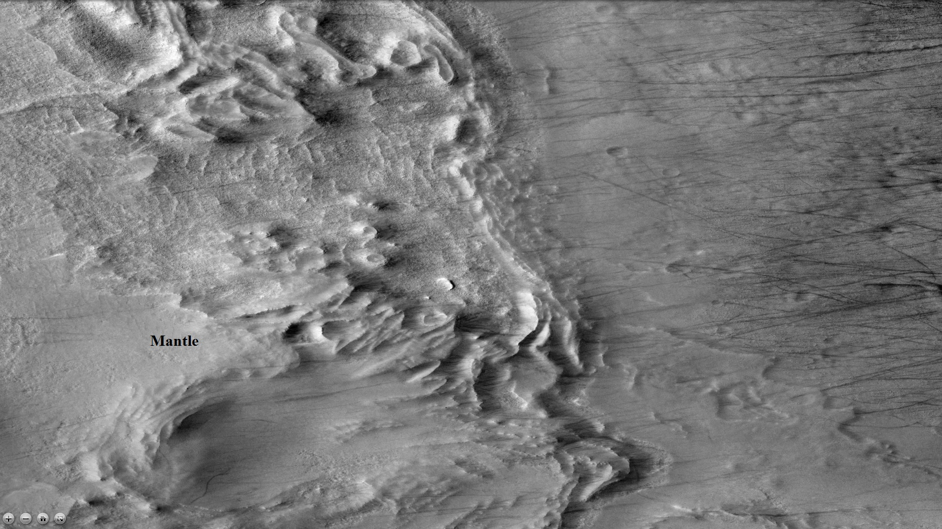 Redi Crater showing dust devil tracks, as seen by CTX